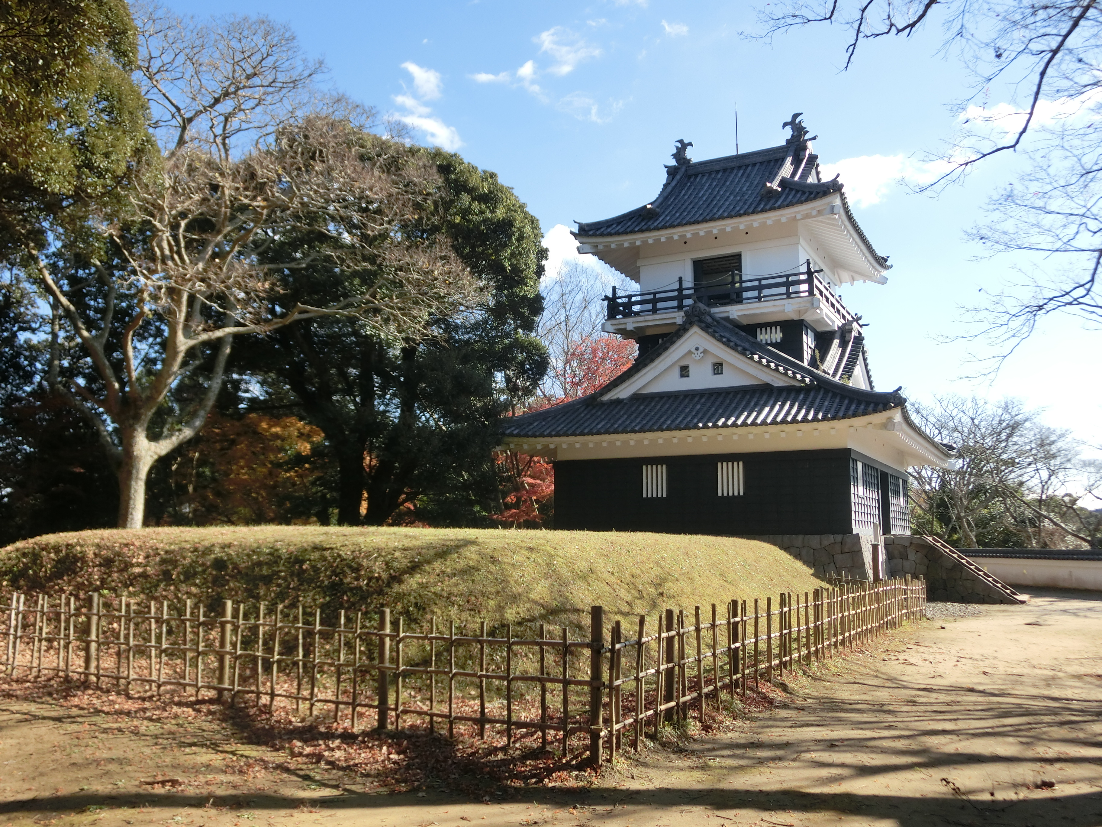 Kururi Castle